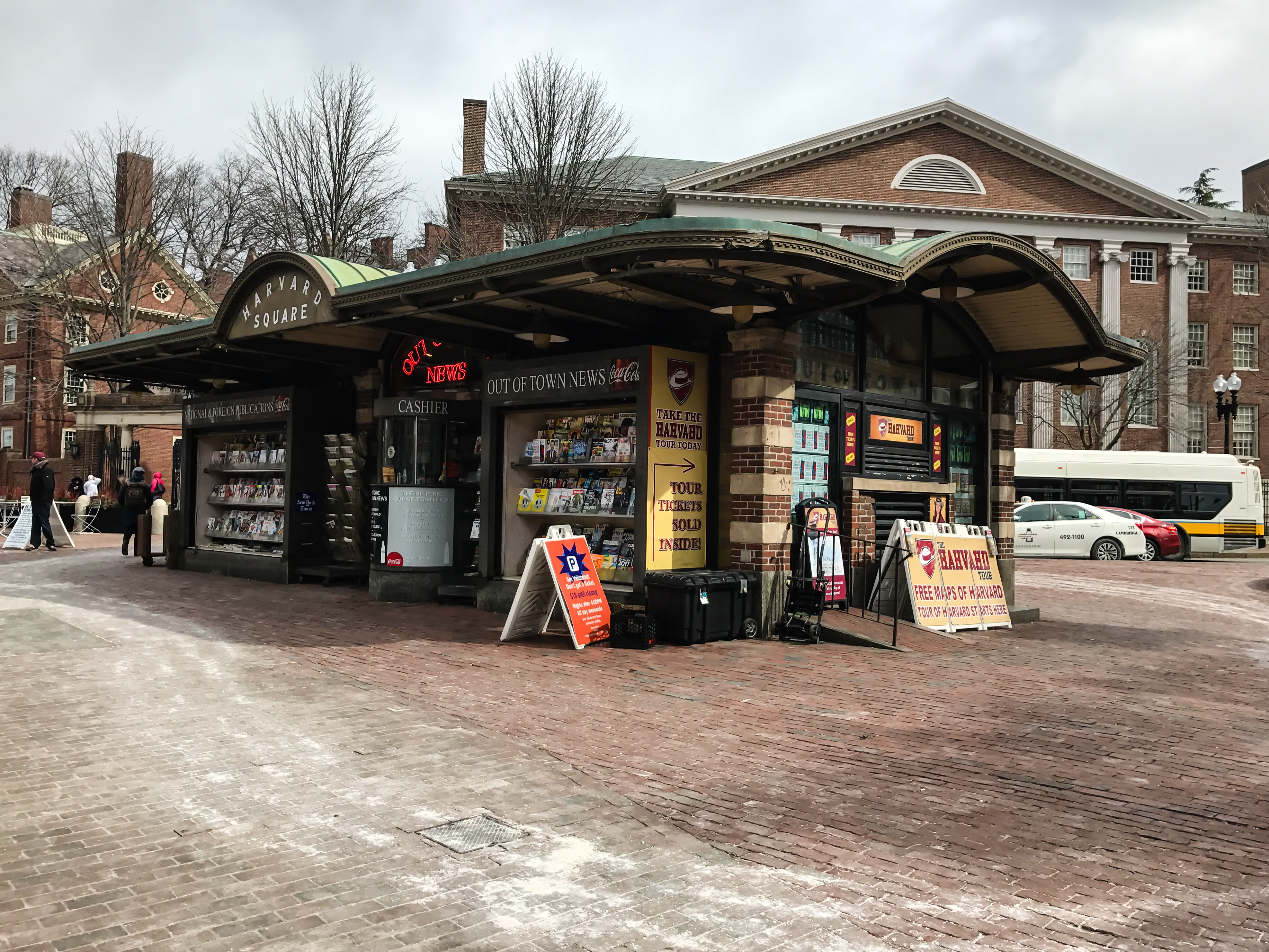 Out of Town News, a newsstand in Harvard Square, Cambridge, Massachusetts